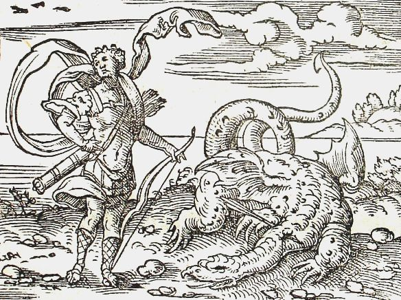 Apollo kills Python. Engraving by Virgil Solis for Ovid's Metamorphoses Book I, 435-451. Fol. 9r, image 12.